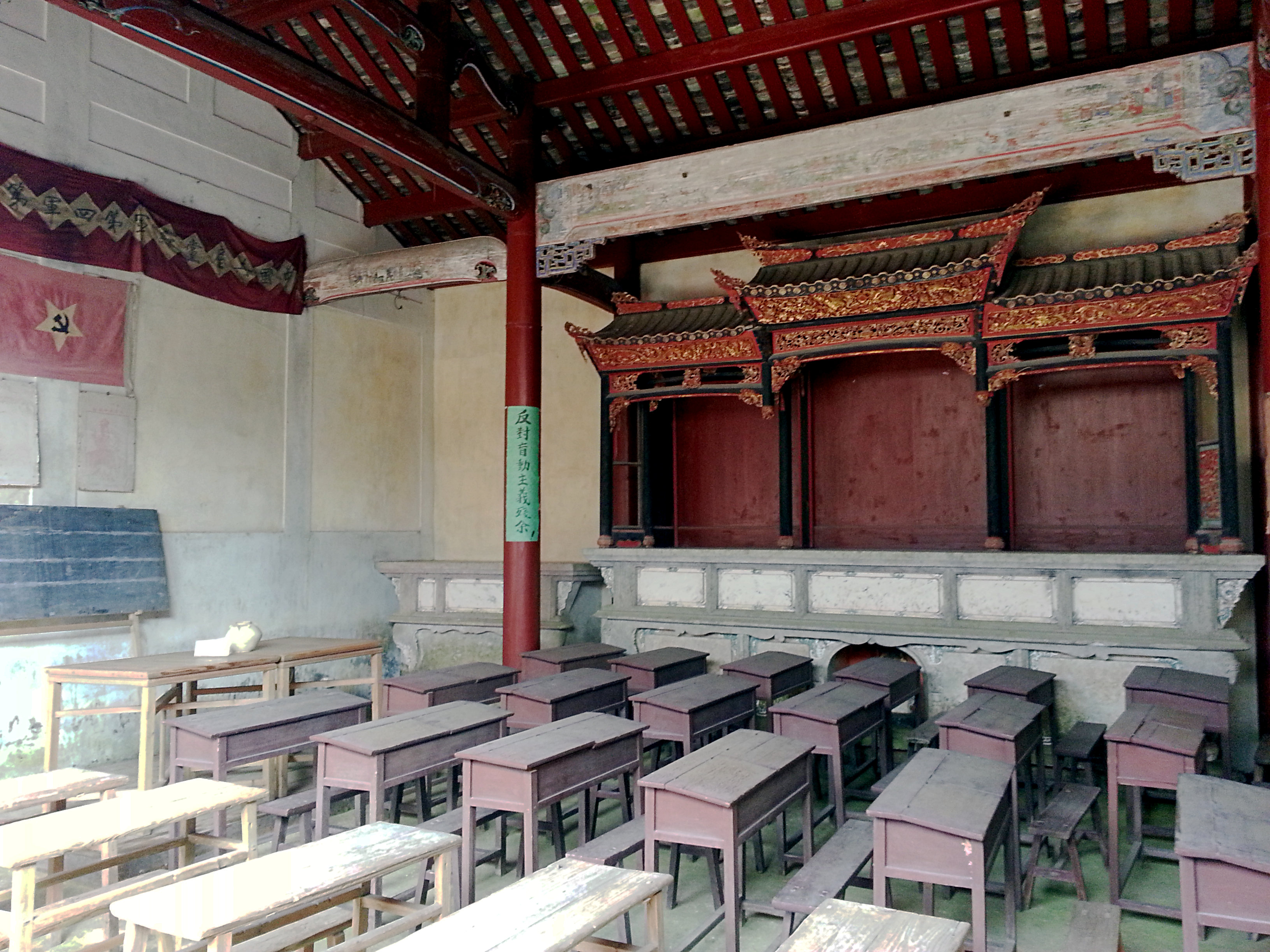 Photograph of the meeting room (a former primary school classroom) where the Gutian Congress of the Chinese Communist Party was held in 1929. Location: Gutian Town, Shanghang County, southwestern Fujian Province, China.